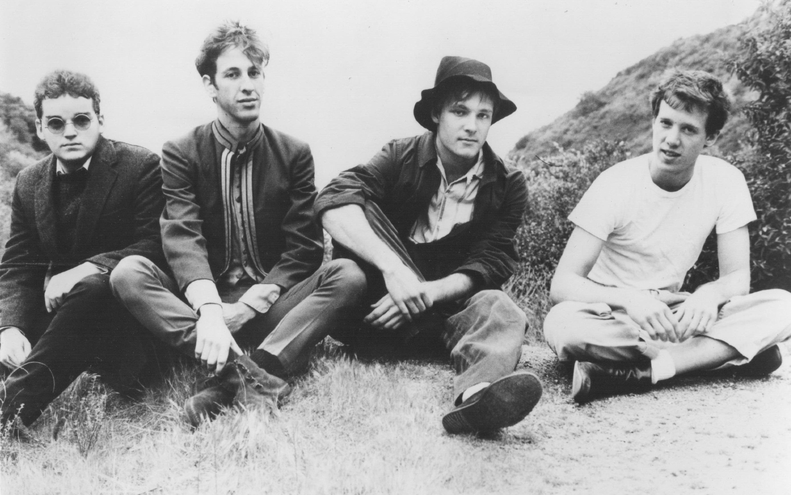 WhatIsThis - The Band